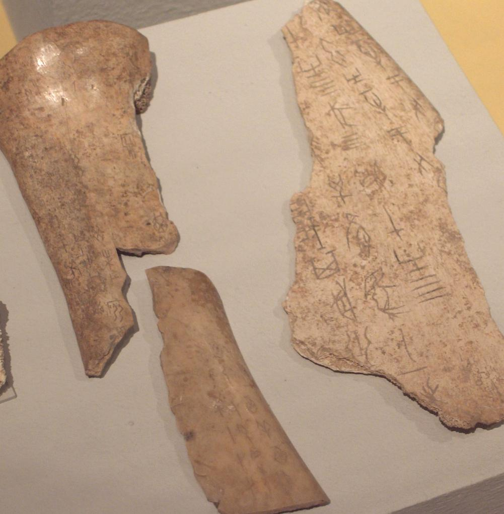 Chinese Oracle Bones, Shang Dynasty Linden-Museum, Stuttgart (Germany)